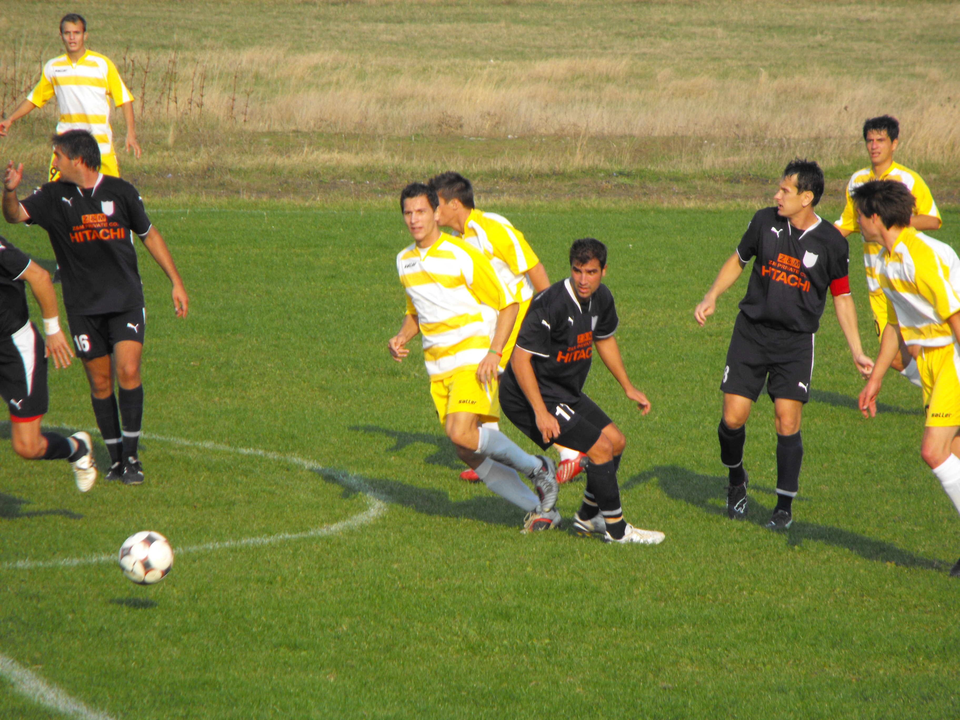 Football match FC "Slivnishki geroi" Slivnitsa - "Akademik" Sofia (3:0) (Sl. Geroi in black).